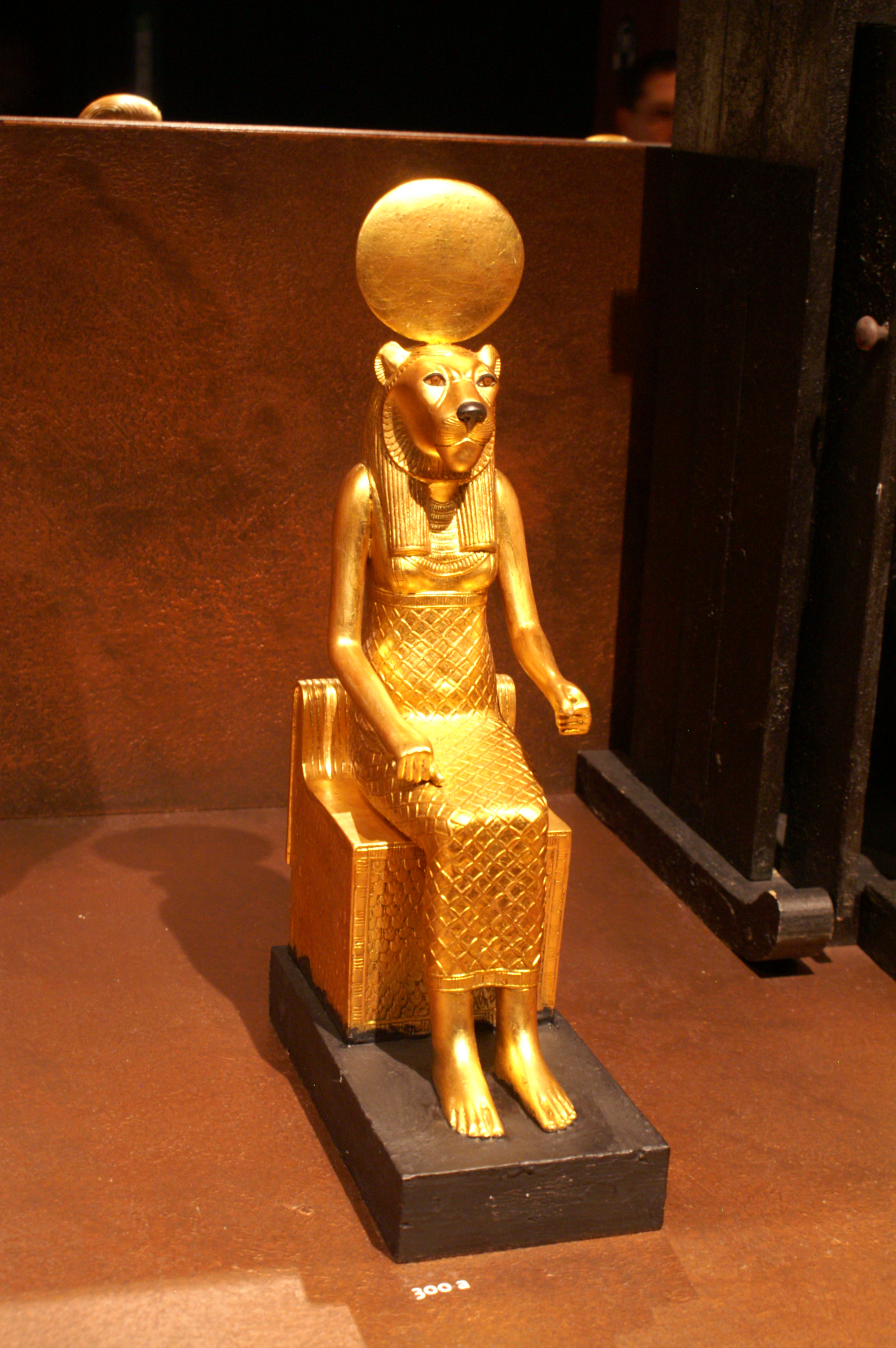 fugure of the goddess sekhmet, replica